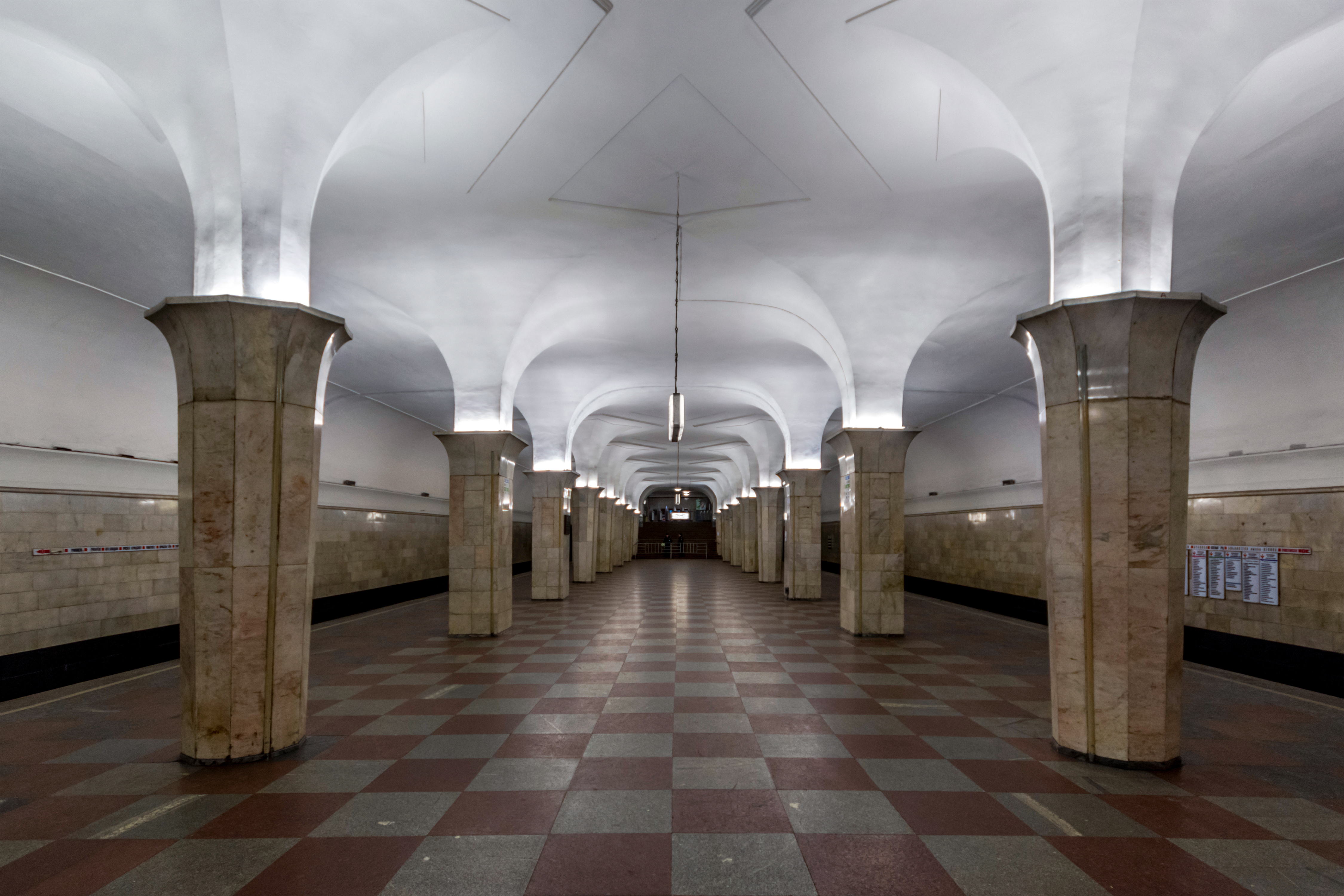 Kropotkinskaya Station of Moscow Subway